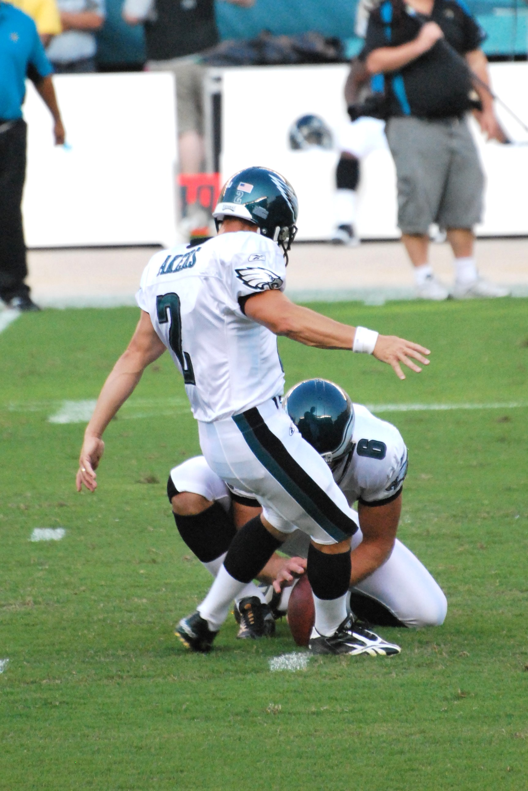 David Akers kicking a field goal